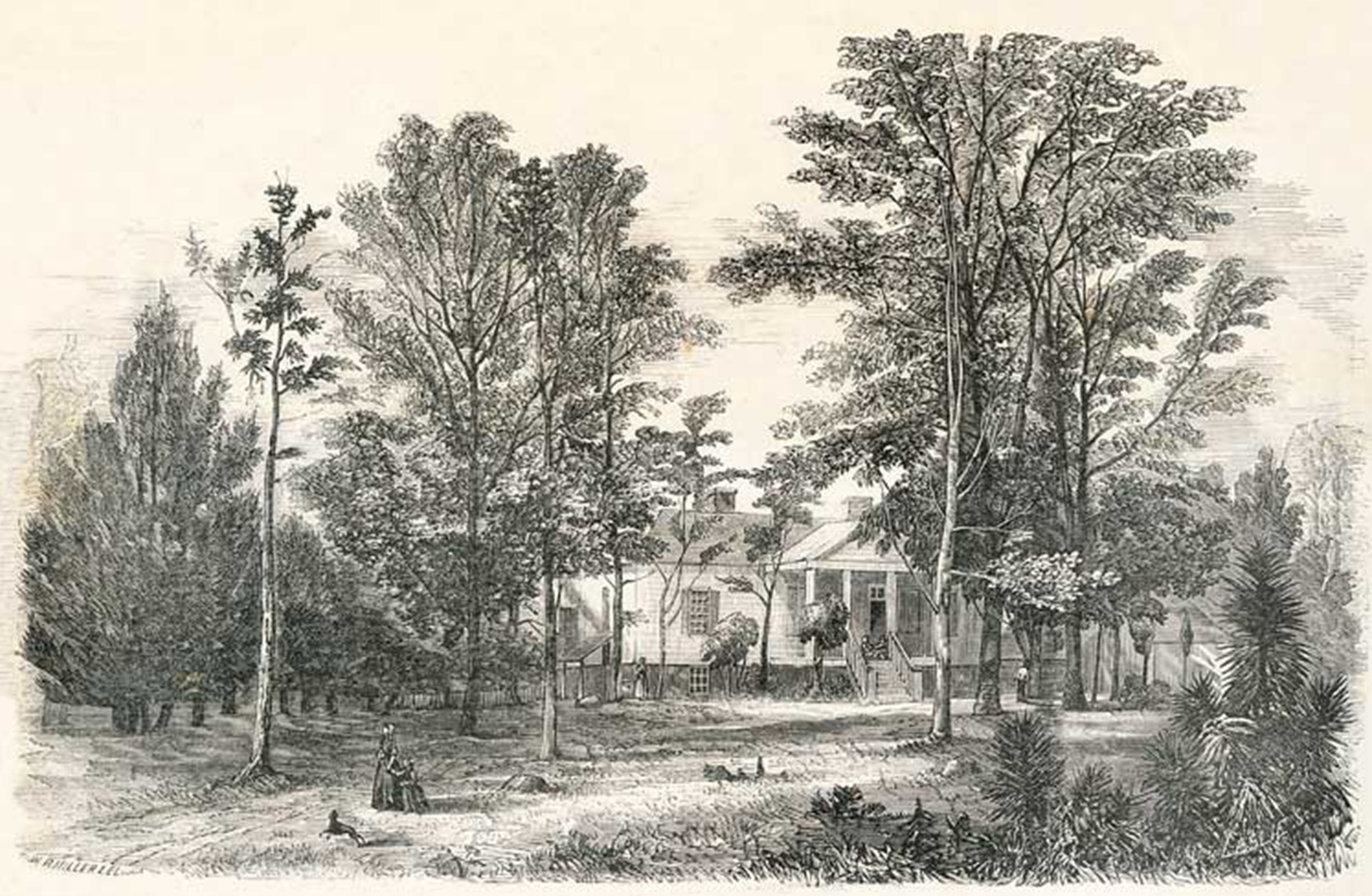 Wood engraving of Chestnut Hill, the home of William R. King (April 7, 1786 – April 18, 1853), in King's Bend, Dallas County, Alabama. Built circa 1820 on a knoll surrounded by chestnut trees, it was located near the east bank of the Alabama River, opposite from Cahaba. It was inherited by King’s sister, Tabitha King Kornegay, and burned in the 1920s. Original title: Residence of the late Vice President King — His Death Place.